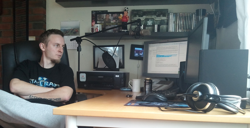 Eirik Blodøks Hafskjold, photographed in studio 2011.